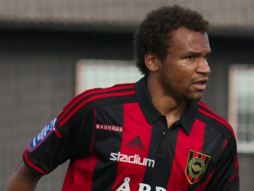 Allsvenskan IF Brommapojkarna-Malmö FF at Grimsta IP